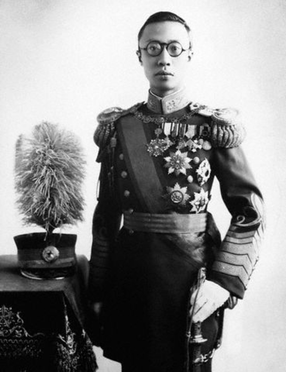 Puyi Emperor wearing Mǎnzhōuguó uniform